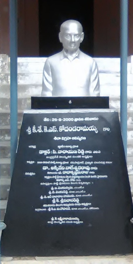 கோதண்டராமையா சிலை